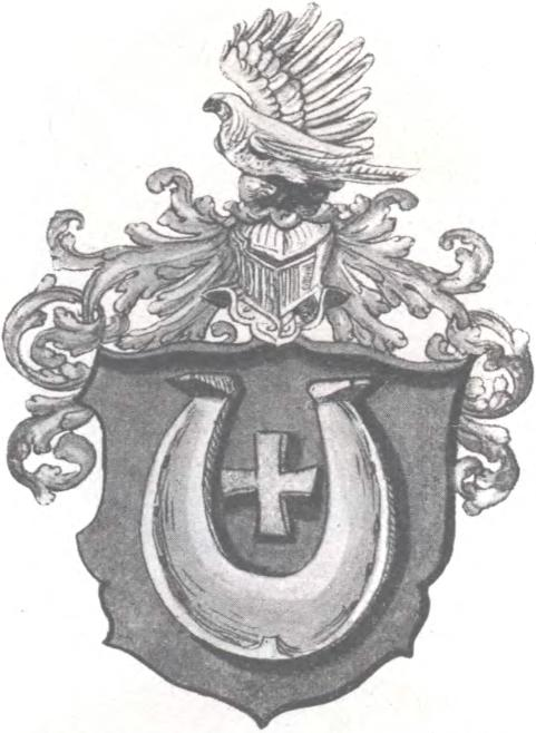 Coat of arms Jastrzębiec from Stemmata polonica